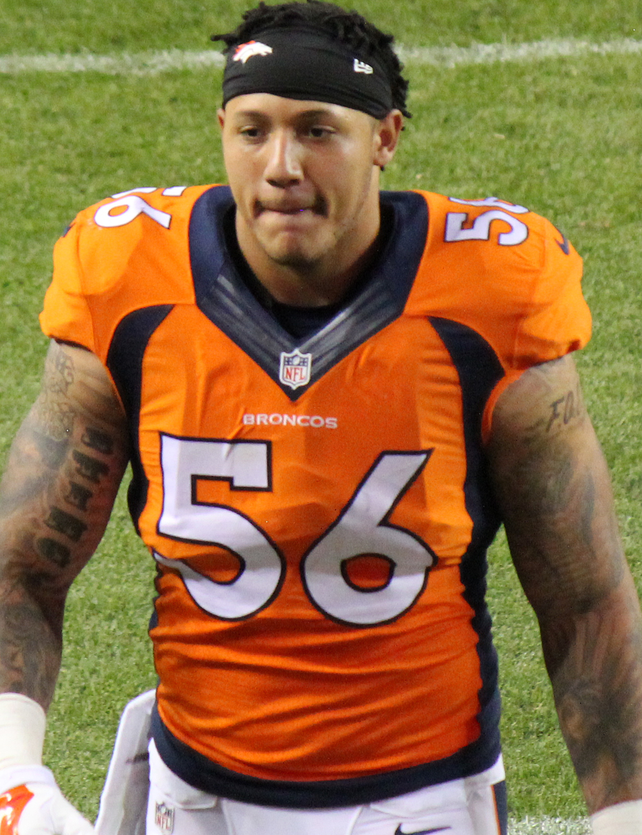 Shane Ray, a player on the National Football League.